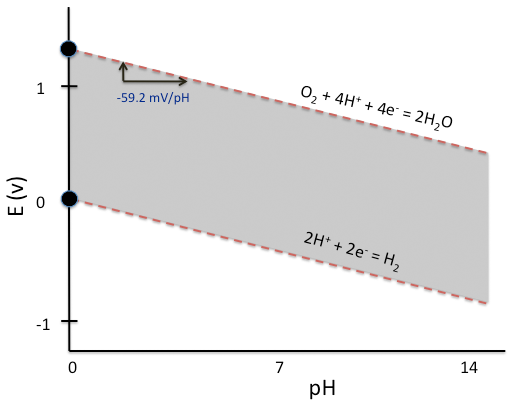 Pourbaix diagram for water